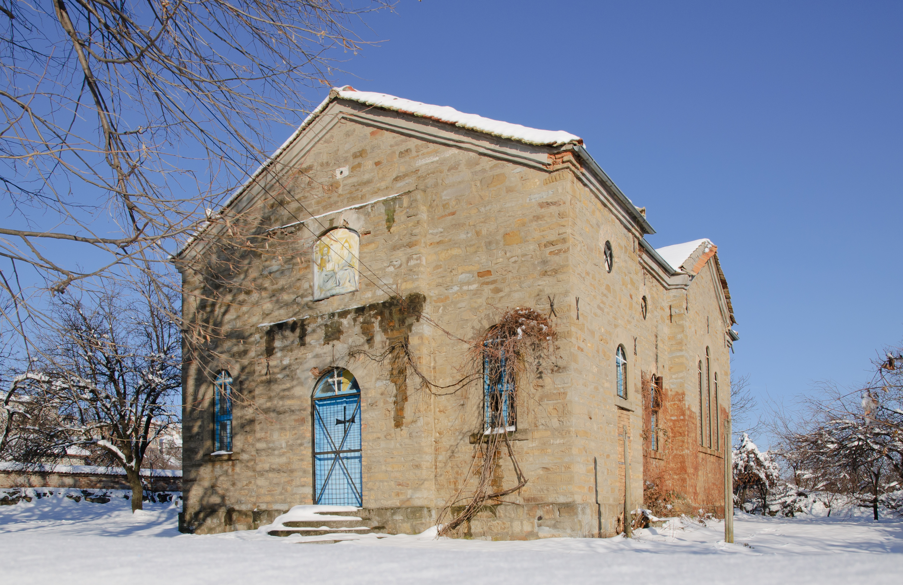 Holy Trinity Church in Antonovo, Targovishte Province, Bulgaria.